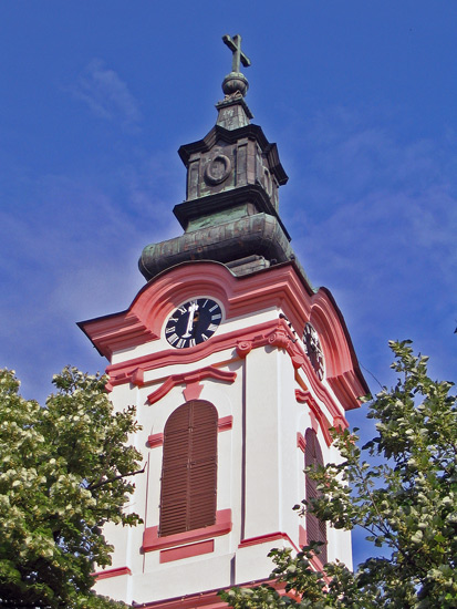 Sombor, Serbia: Orthodox church